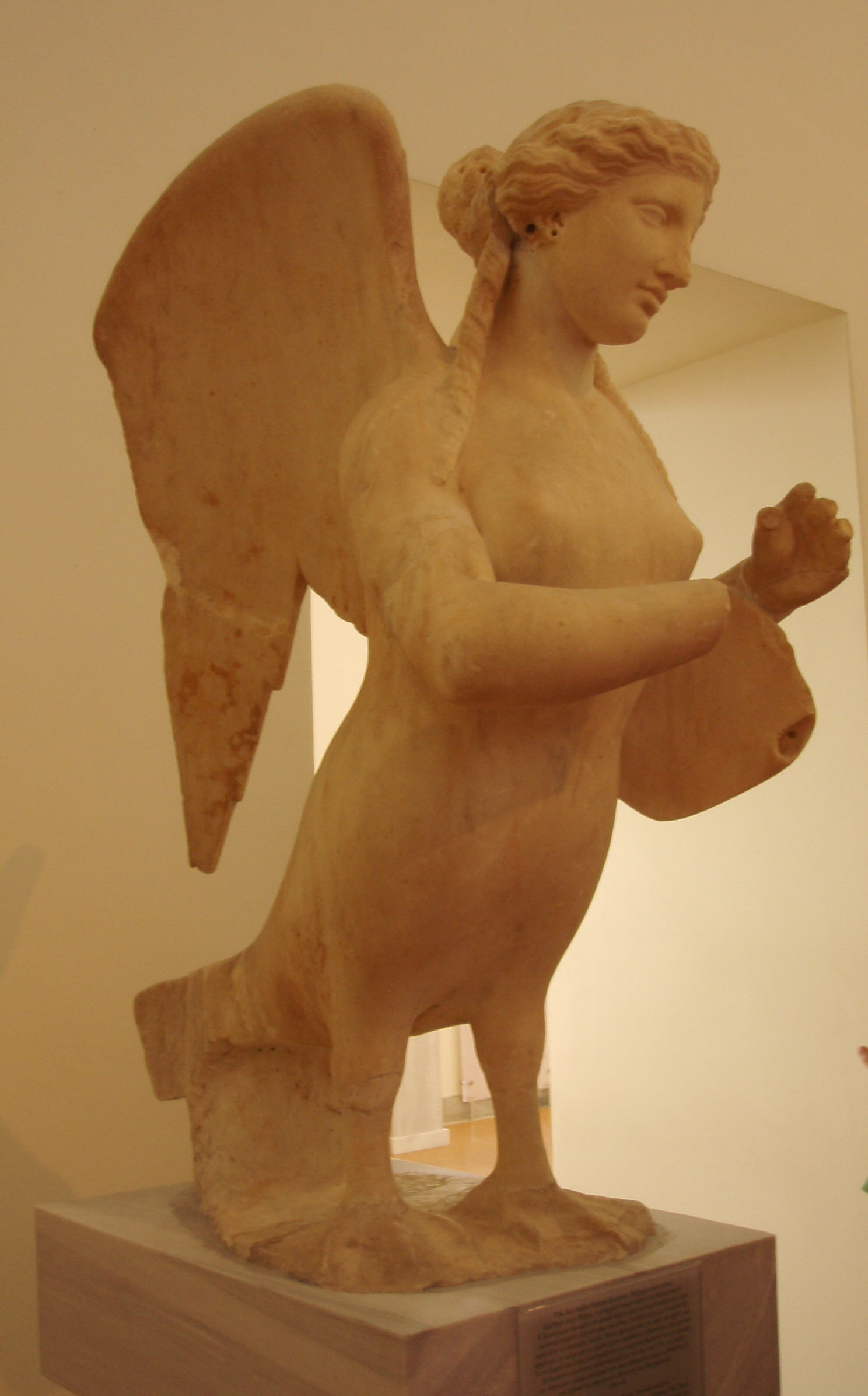 Funerary statue of a siren in Pentelic marble, found in the Necropolis of Ceramics at Athens. The siren laments the dead, wings folded, playing on a tortoiseshell lyre. The right hand, which would have held the plectrum, is missing. The strings, probably made of bronze, would have been attached to the holes which can be seen in the body of the instrument. The plumage and other parts would have been picked out in colour. The statue flanked the stele of the Athenian warrior Dexileo who fell in combat in 394/393 BC (Work of 370BC, National Archeological Museum, Athens).